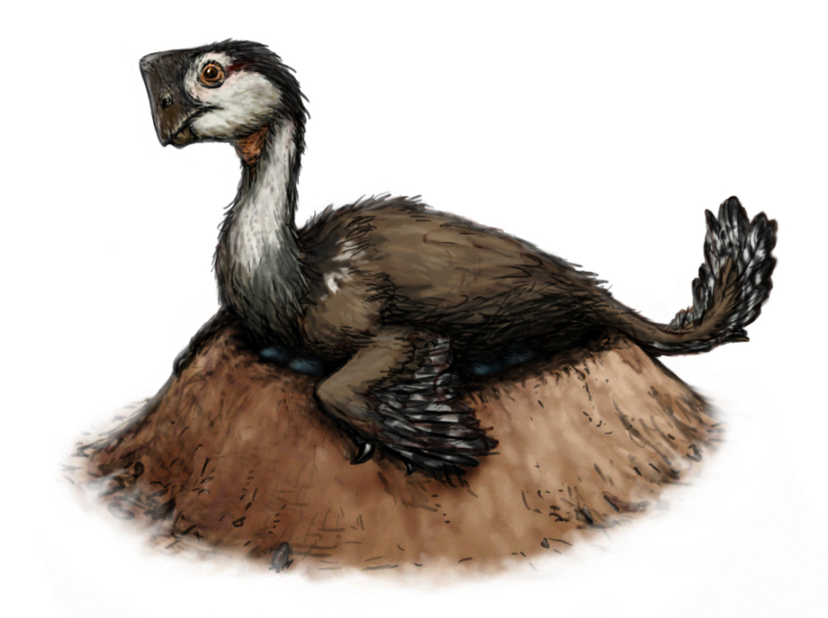 Restoration of a nesting Nemegtomaia barsboldi, based on Fanti et al. 2012[1] and Wiemann et al. 2015[2]. Adjustments to the nest were done following the advice of palaeontologist Tzu-Ruei Yang, who used an earlier version of the image in his dissertation.[3]